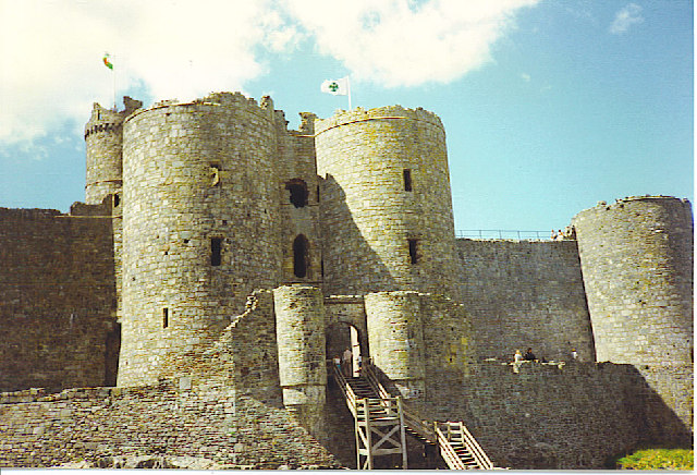 Harlech Castle, Round Towers and Gate.